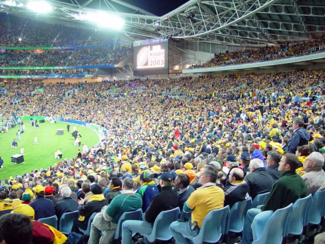 the crowd waiting for the game to begin (Flickr)